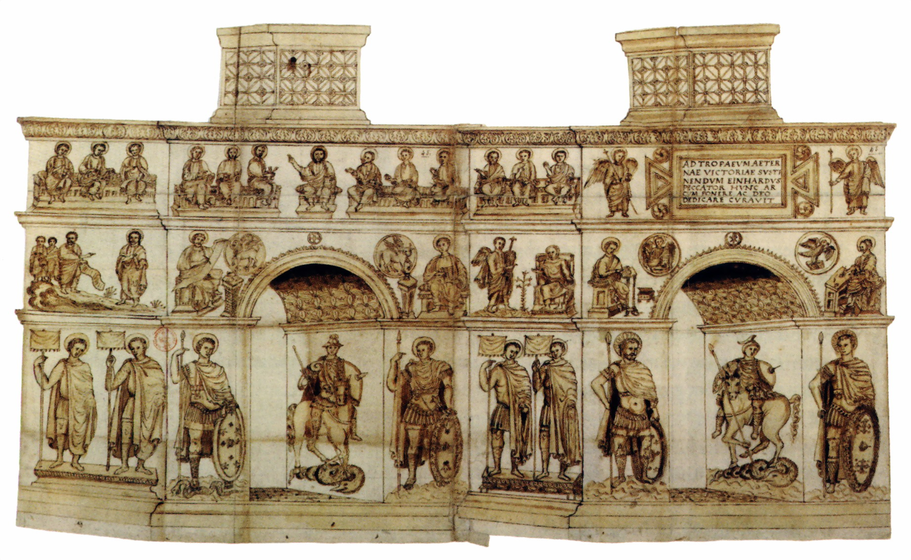 Drawing of the 'Arcus Einhardi', probably the silver foot of a crux gemmata (reliquary cross decorated with gems) formerly in the Treasury of the Basilica of Saint Servatius in Maastricht (lost since the 18th c.). Drawing by unknown artist, 17th c, now in the Bibliothèque nationale de France in Paris.